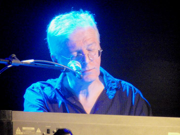 Woolly Wolstenholme on stage with John Lees' Barclay James Harvest at the Holmfirth Picturedrome, 25th October, 2009.